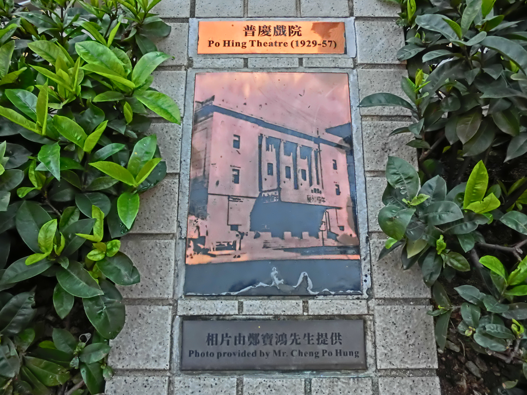 Outdoor square at No.382 Nathan Road, Yau Ma Tei, Hong Kong